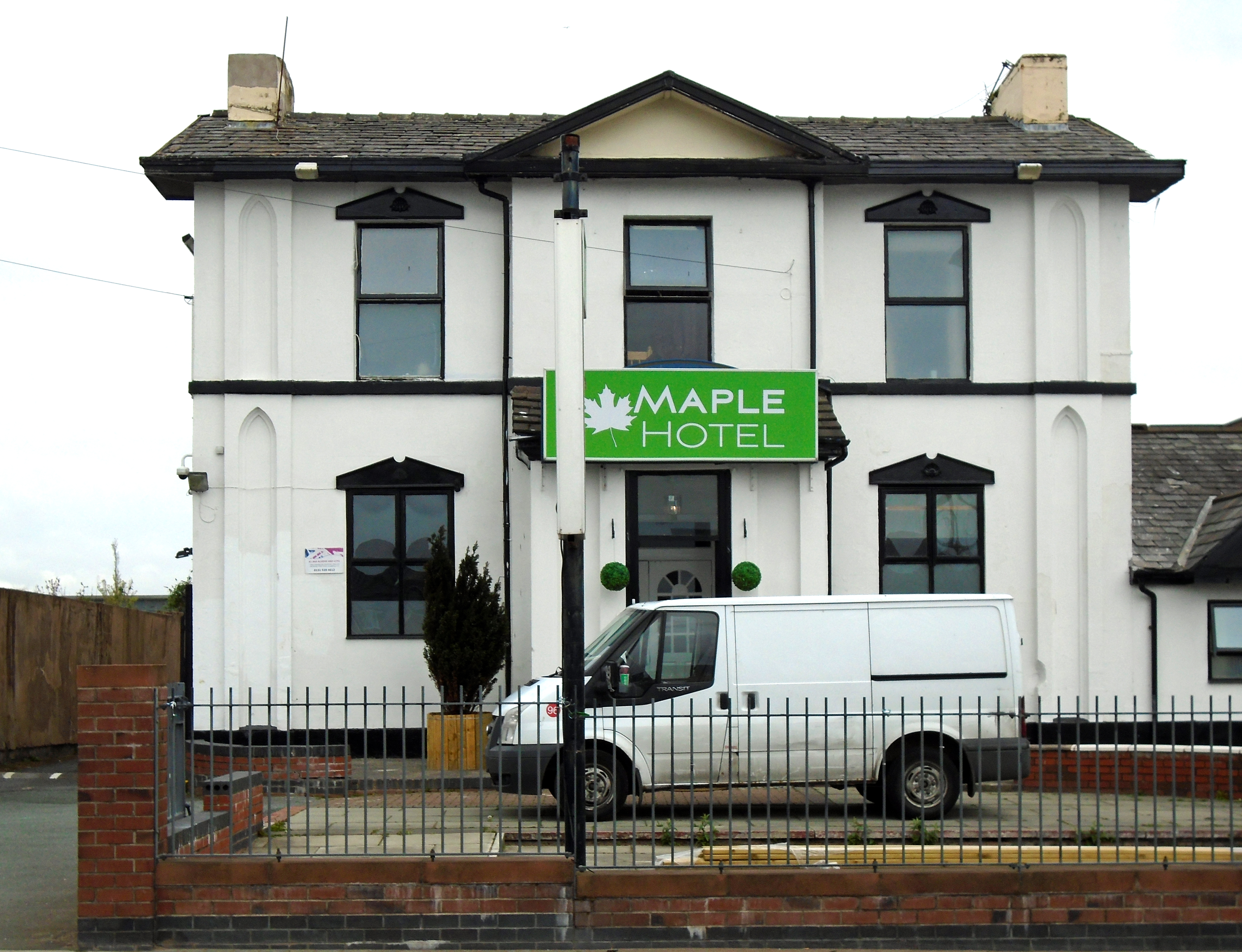 Grade II listed 1840s stucco house, now the Maple Hotel.